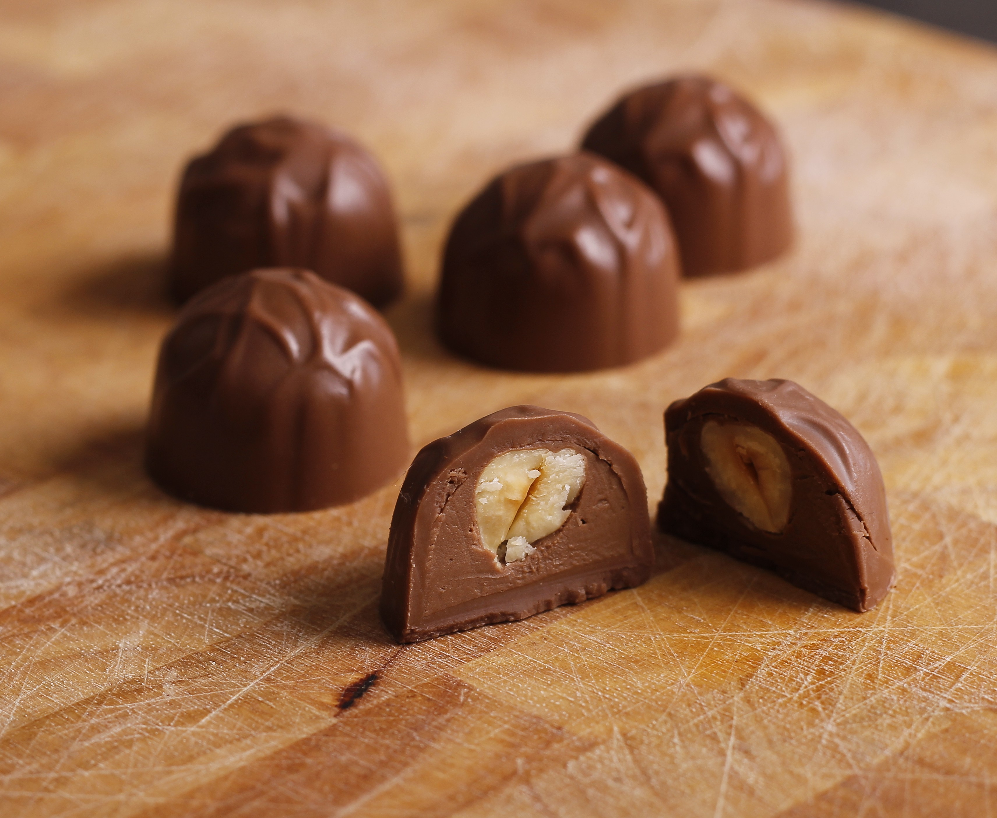 Detail of candy Carlotta.